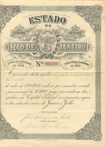 Rio de Janeiro Coat of Arms, published in a 1899 state policy.